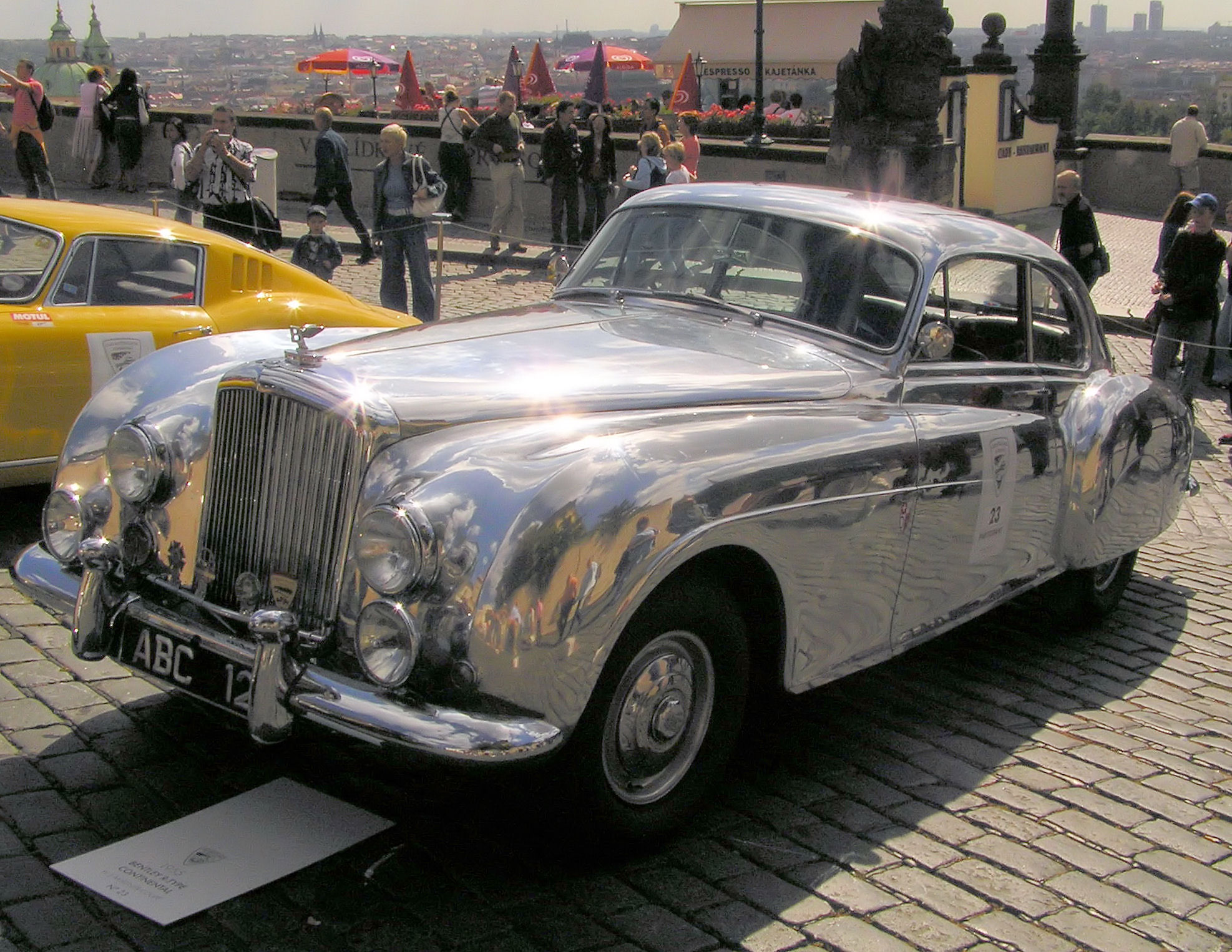 Bentley R Type Continental (built 1955)